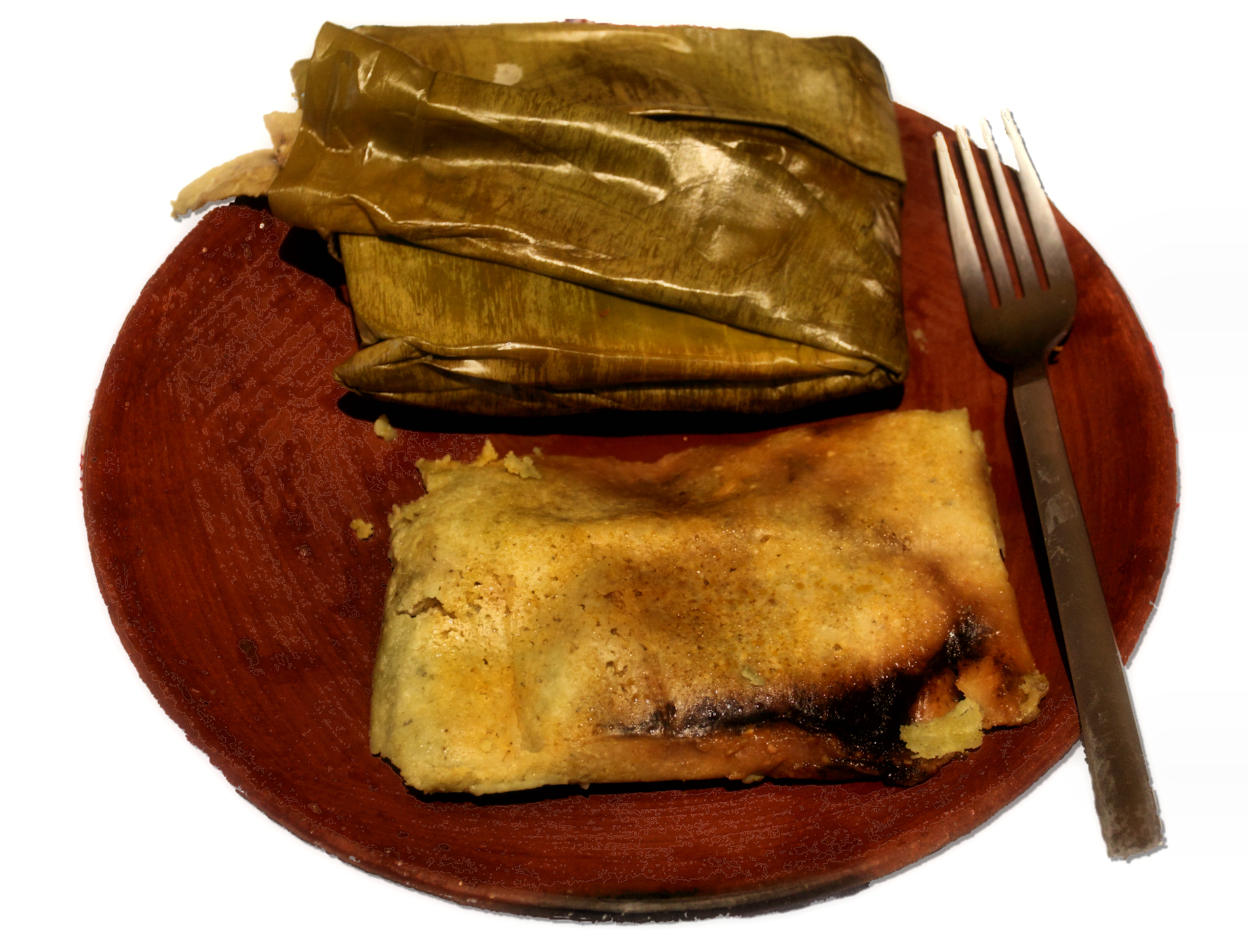 Photo of wrapped and unwrapped Tamales Oaxaqueños. The tamales consists of masa, chicken and mole negro, wrapped in plantain leaves. Taken in Oaxaca, Mexico.